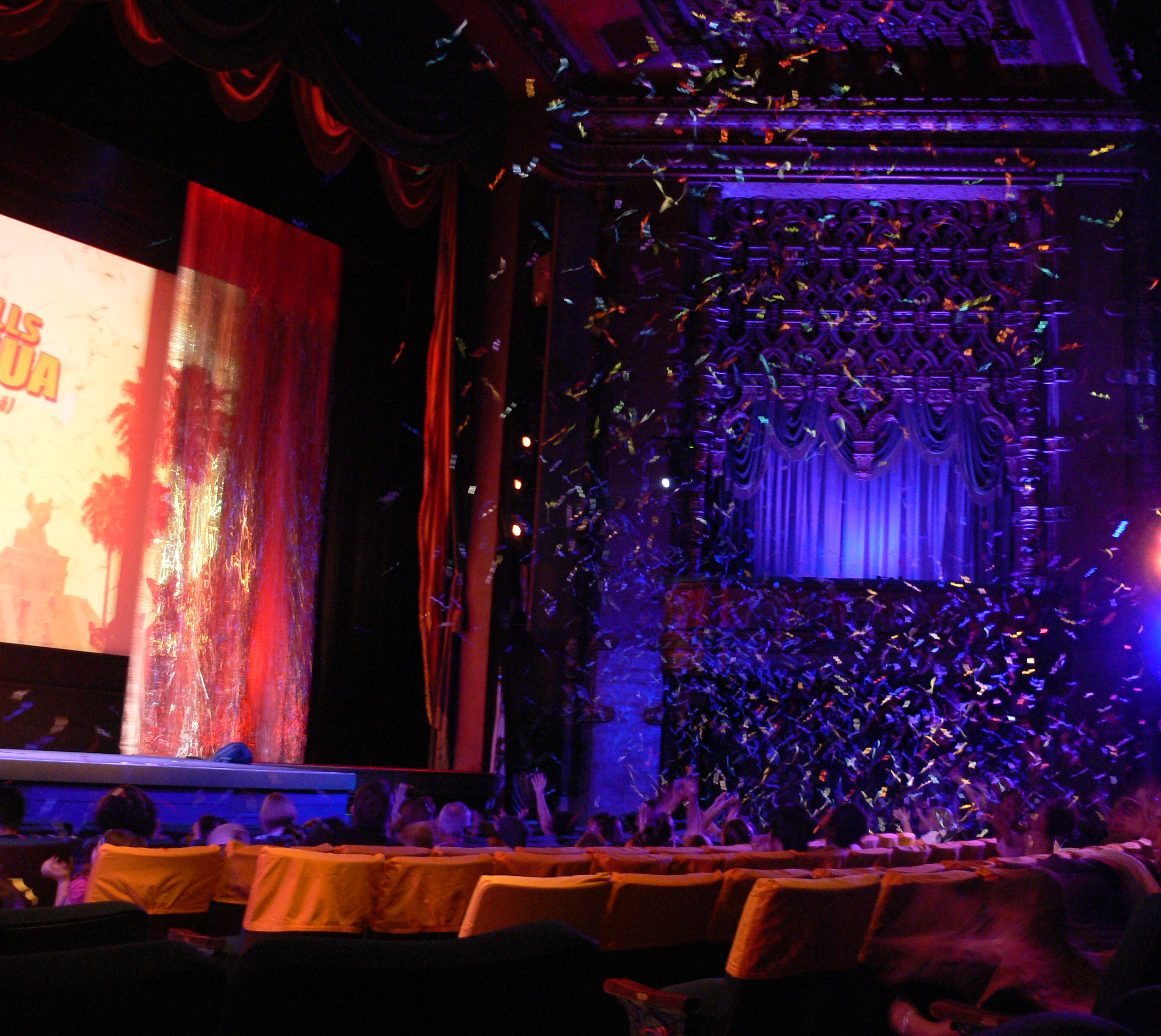 El Capitan Theater, 6838 Hollywood Boulevard, Los Angeles, California Confetti falling down before the movie starts